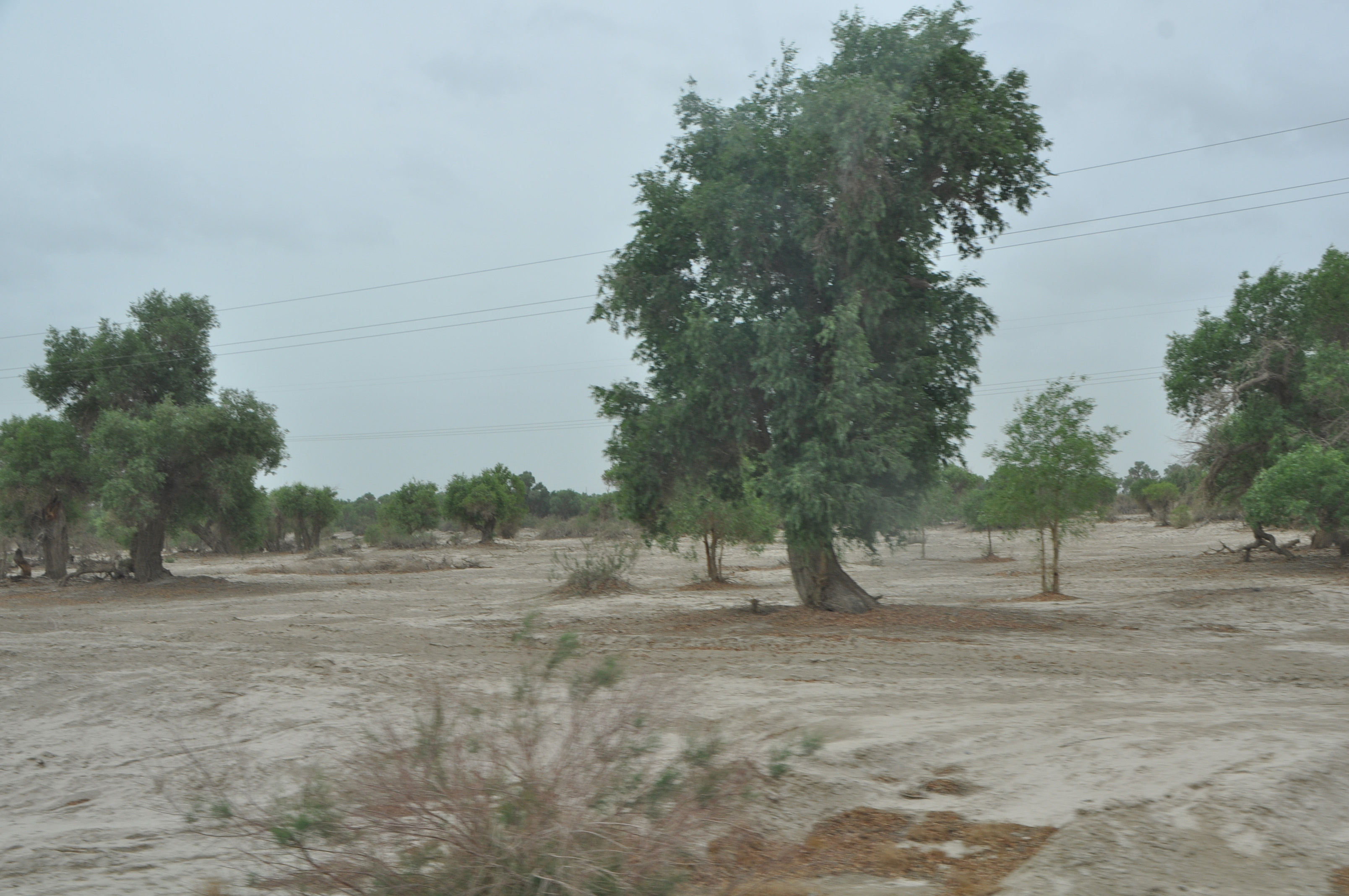 Tarim Desert Highway - Desert poplars (胡楊), Xinjiang, China